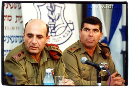 Briefing to summarize the inquest following the 2000 abduction of 3 Israeli soldiers in Har Dov. In image: Chief of Staff Shaul Mofaz (left) and Head of Northern Command Aluf Gabi Ashkenazi (right).